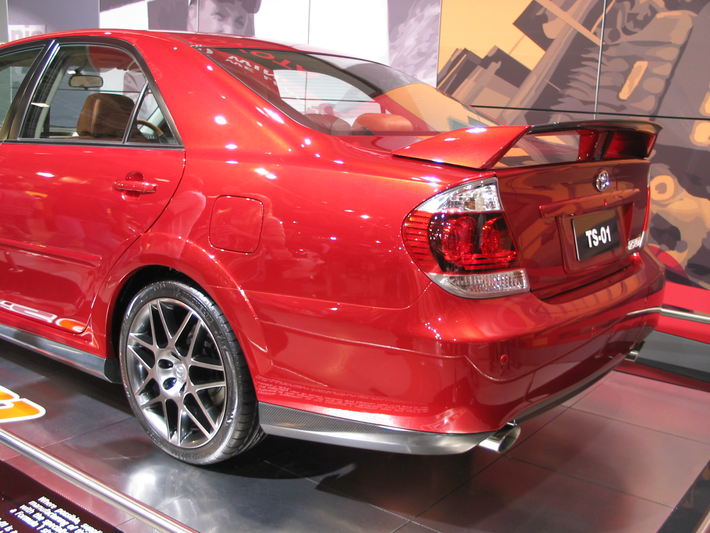 2005 Toyota Camry TS-01 concept, photographed at the 2005 Australian International Motor Show.